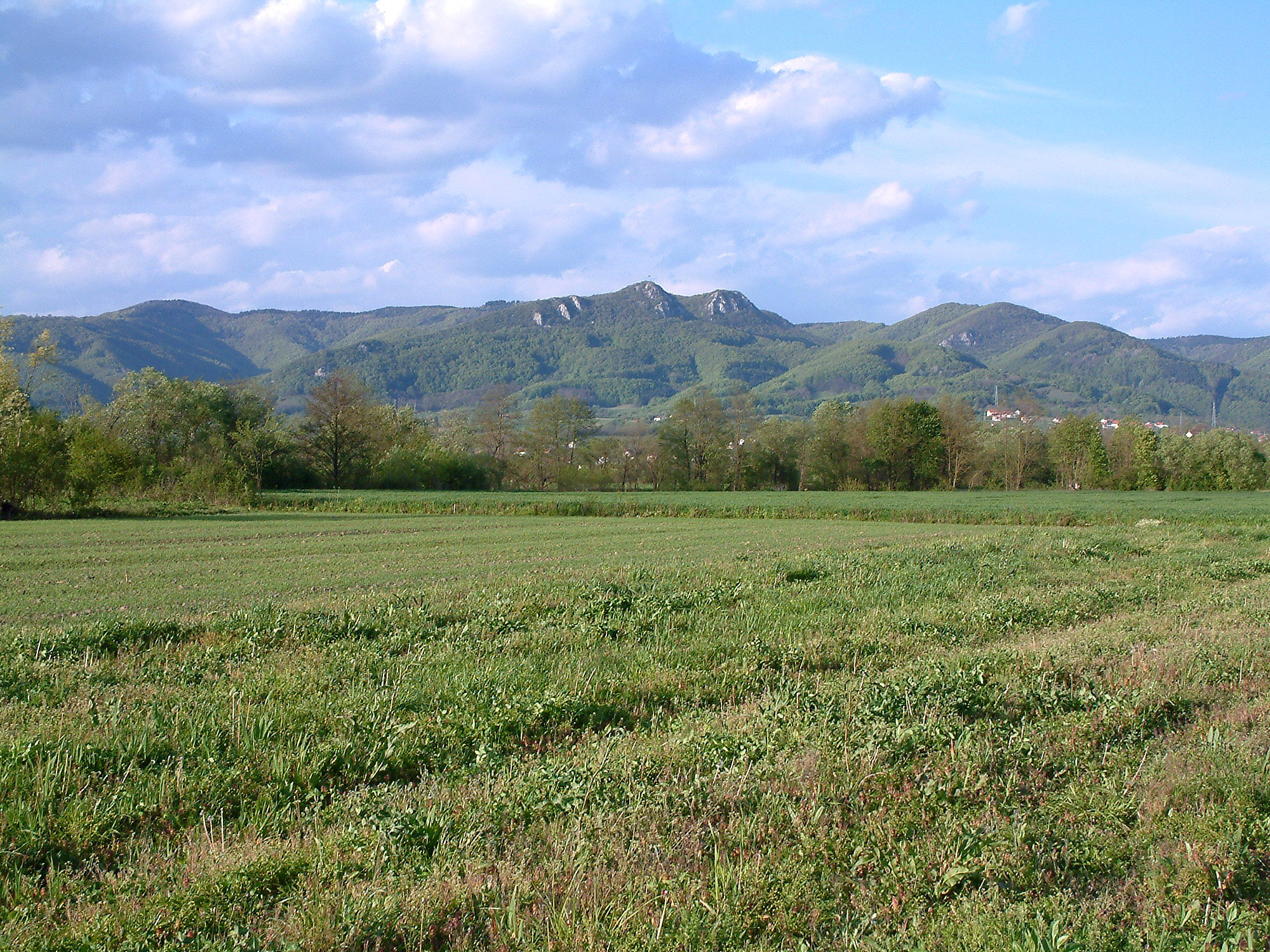 Kozara national park, looking northwest. Taken on April 15, 2014. Tos17rs NP002